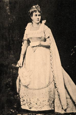 The russian mezzosoprano Yuliya Platonova in Marina Mnisech role of Boris Godunov (1873)